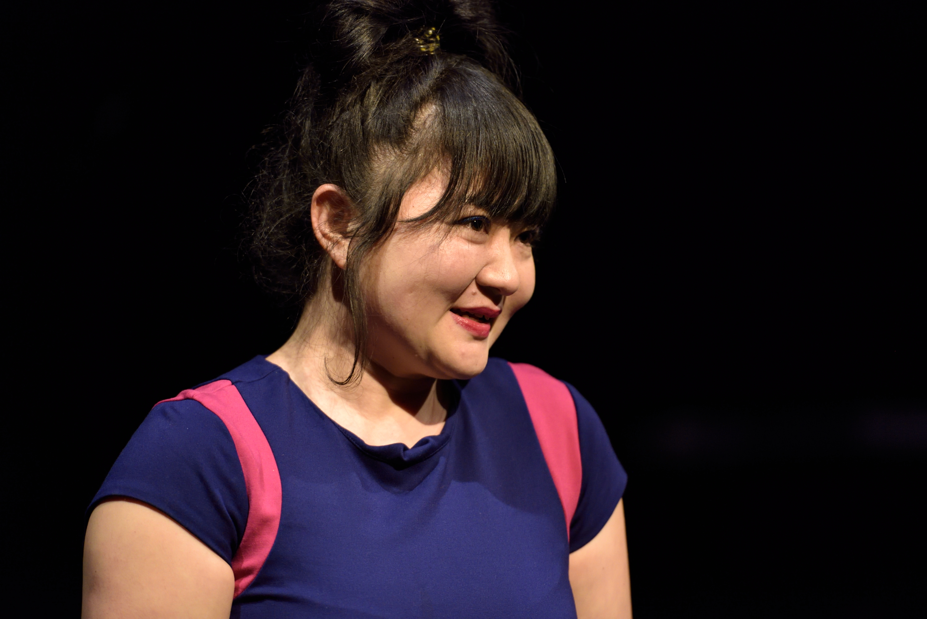 Du Yun spoke at MATA Festival, April 2015.